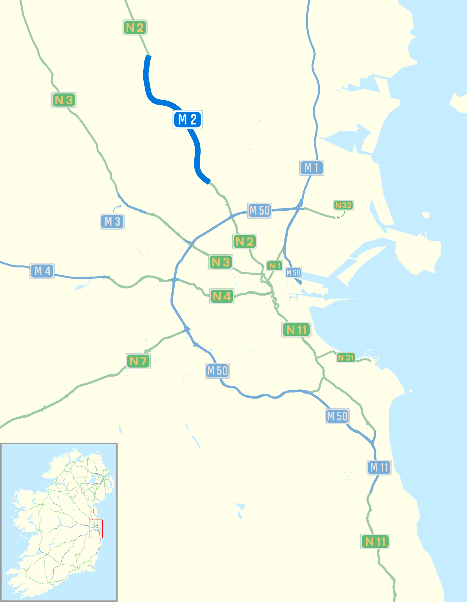 Map of M2 motorway (Ireland) and Dublin area roads with M2 blue bolded, Nxx routes in green and Mxx routes in blue